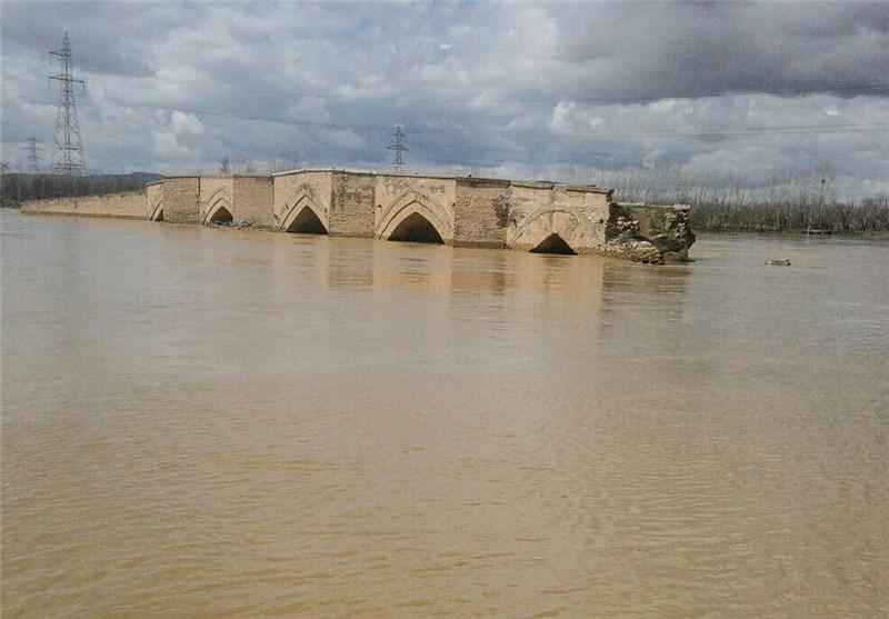 پل تاریخی میرزا رسول واقع در میاندوآب - دوره قاجار